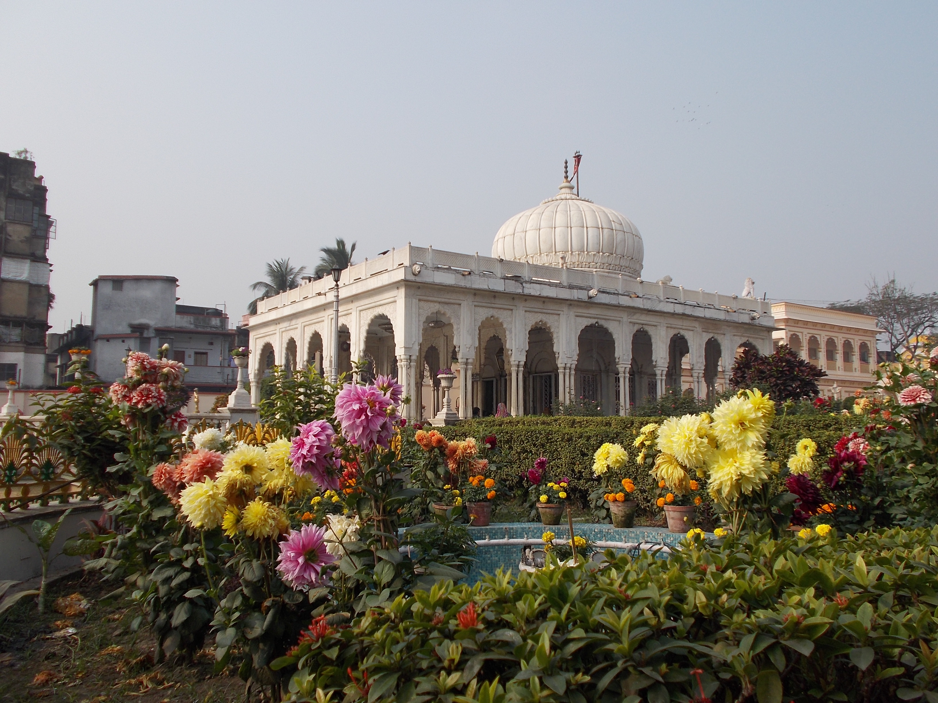 view of the temple with flowers at the garden